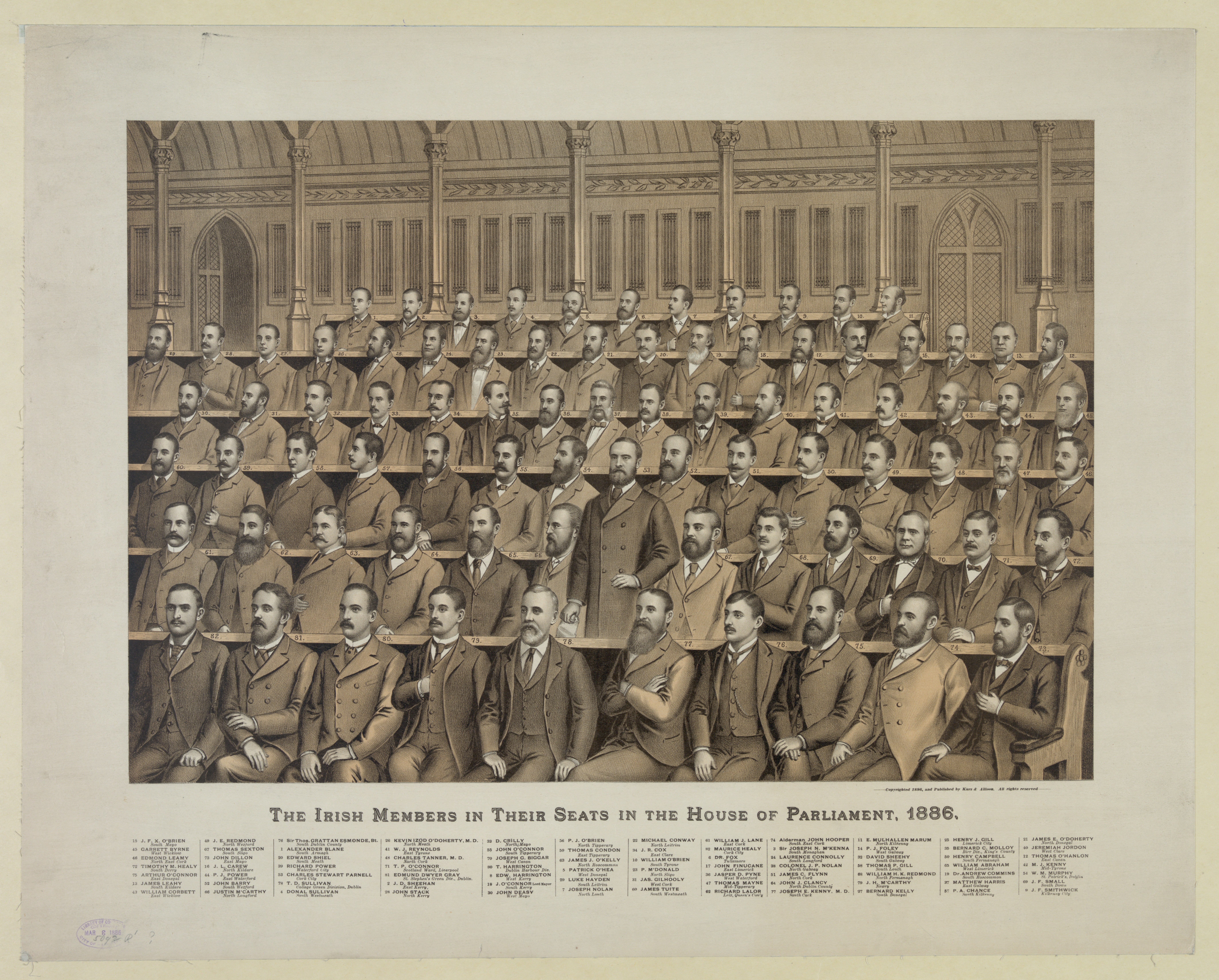 Title: The Irish members in their seats in the House of Parliament, 1886 Abstract/medium: 1 print : lithograph, sepia toned ; 39.8 x 58.1 cm (image), 56 x 70.4 cm (sheet)